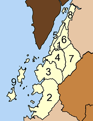 Map of Mueang Ranong district, Ranong province, with the communes (tambon) numbered Khao Niwet (เขานิเวศน์) = Ranong town Rat Krut (ราชกรูด) Ngao (หงาว) Bang Rin (บางริ้น) Paknam (ปากน้ำ) Bang Non (บางนอน) Hat Som Paen (หาดส้มแป้น) Sai Daeng (ทรายแดง) Ko Phayam (เกาะพยาม)